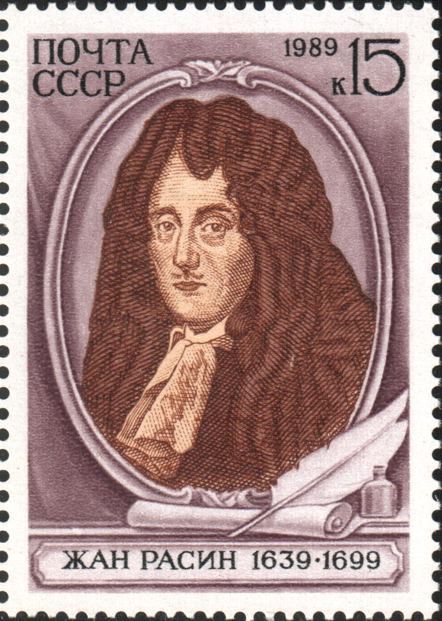 A USSR stamp with a portrait of the French dramatist Jean Racine